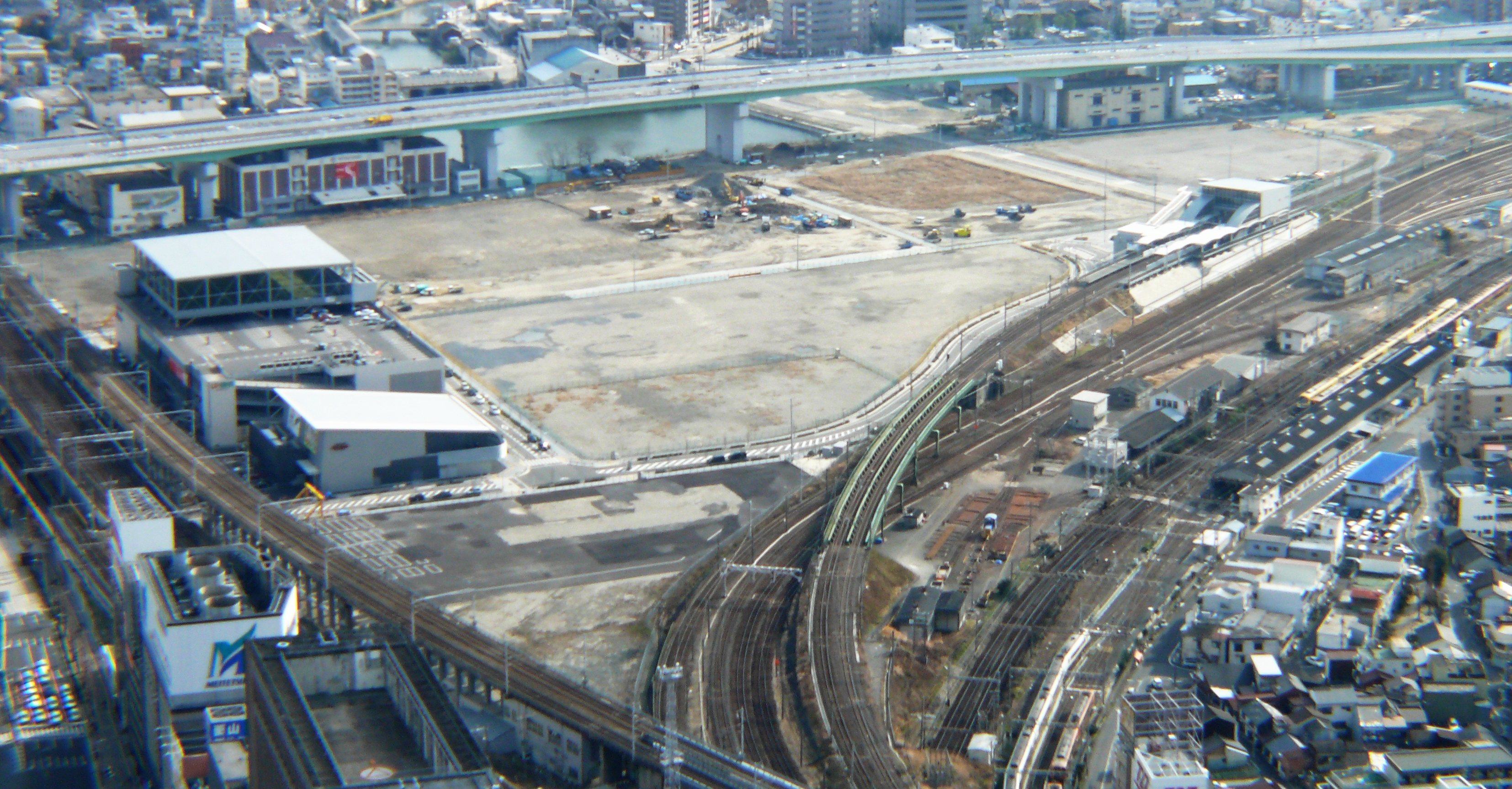 Japanese National Railways of Sasama Station Old factory site(On the sky promenade of the Midland square)